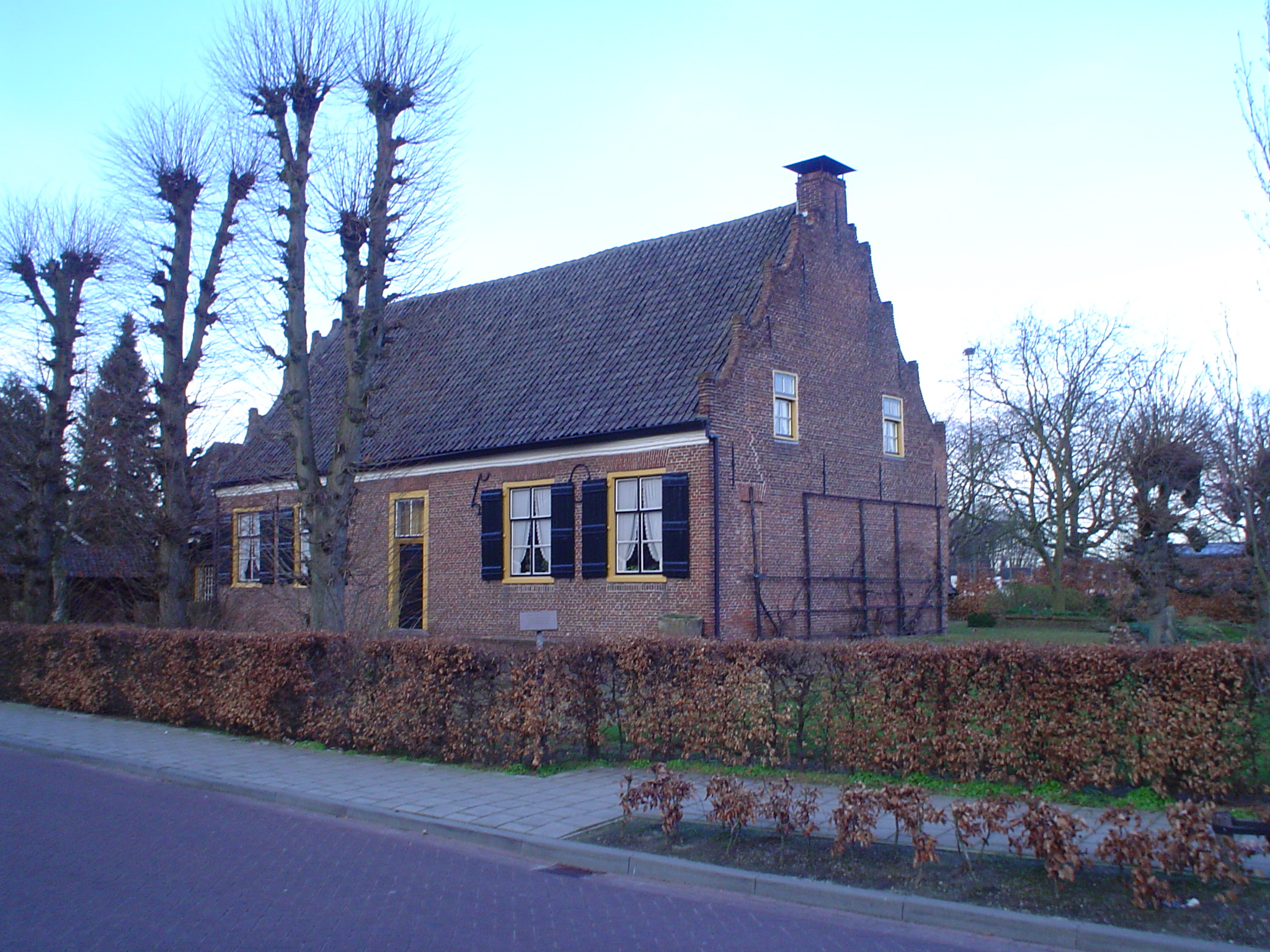 The Trapjeshuis ("staircase house"), built in 1750 in the town of Zeelst